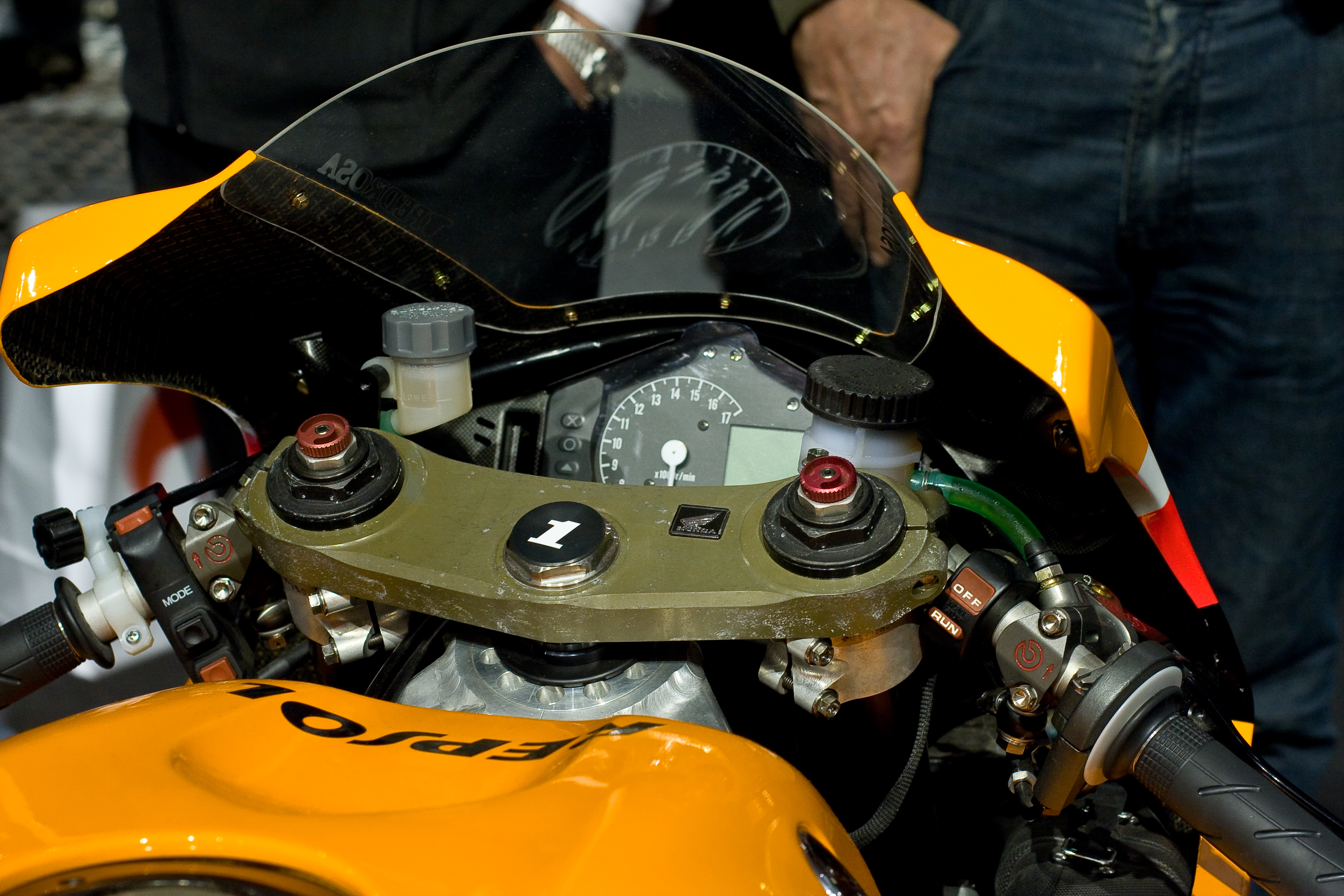 Cockpit of Honda RCV 212 MotoGP racing motorcycle, Dani Pedrosa's bike